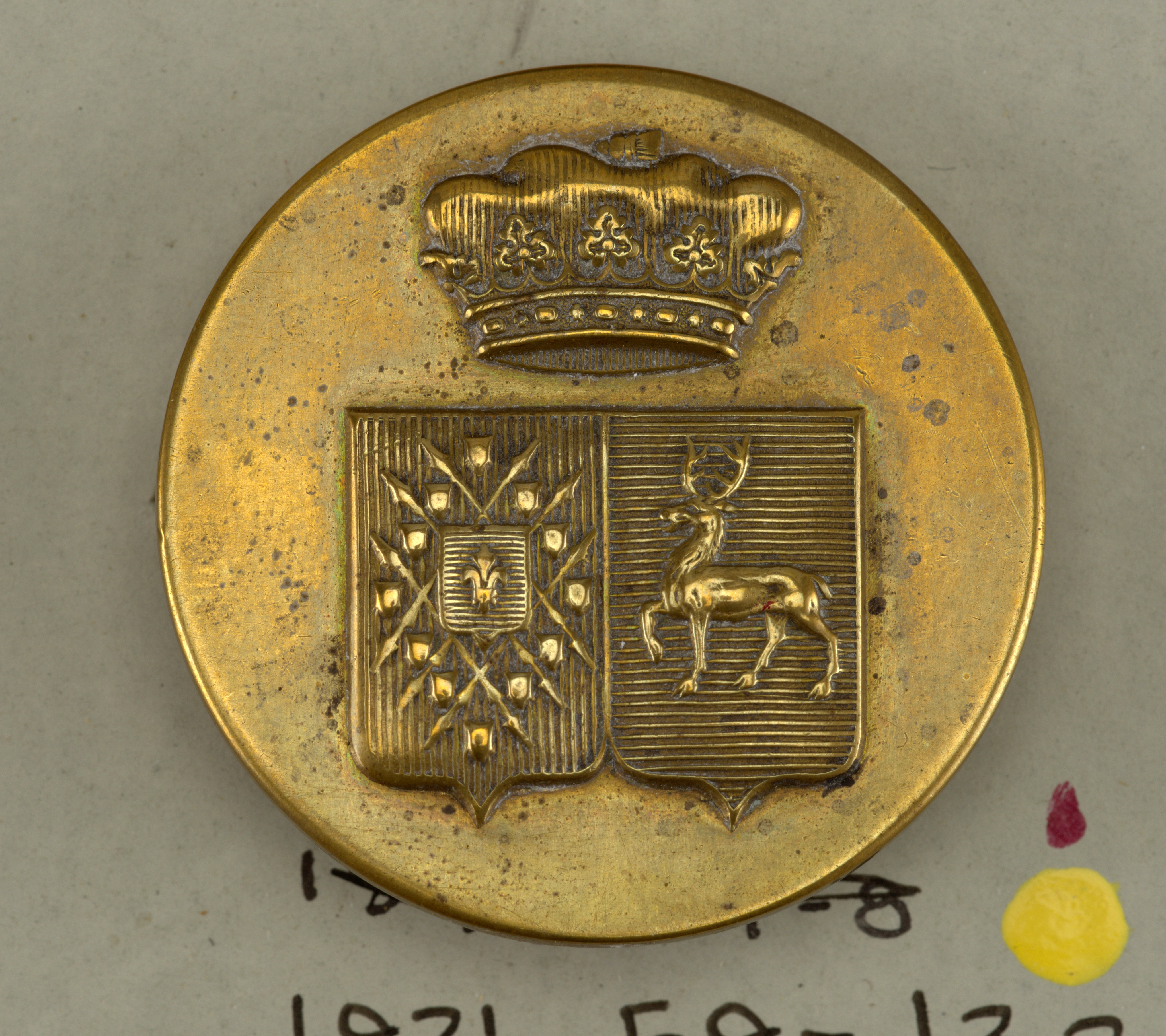 Circular, flat button; ornamented with double shield; one side showing heraldic device, the other, a stag; surmounted by a crown. On reverse: "Agry 14 rue Castiglione Mon. Bouvet." Brass shank. On card 45